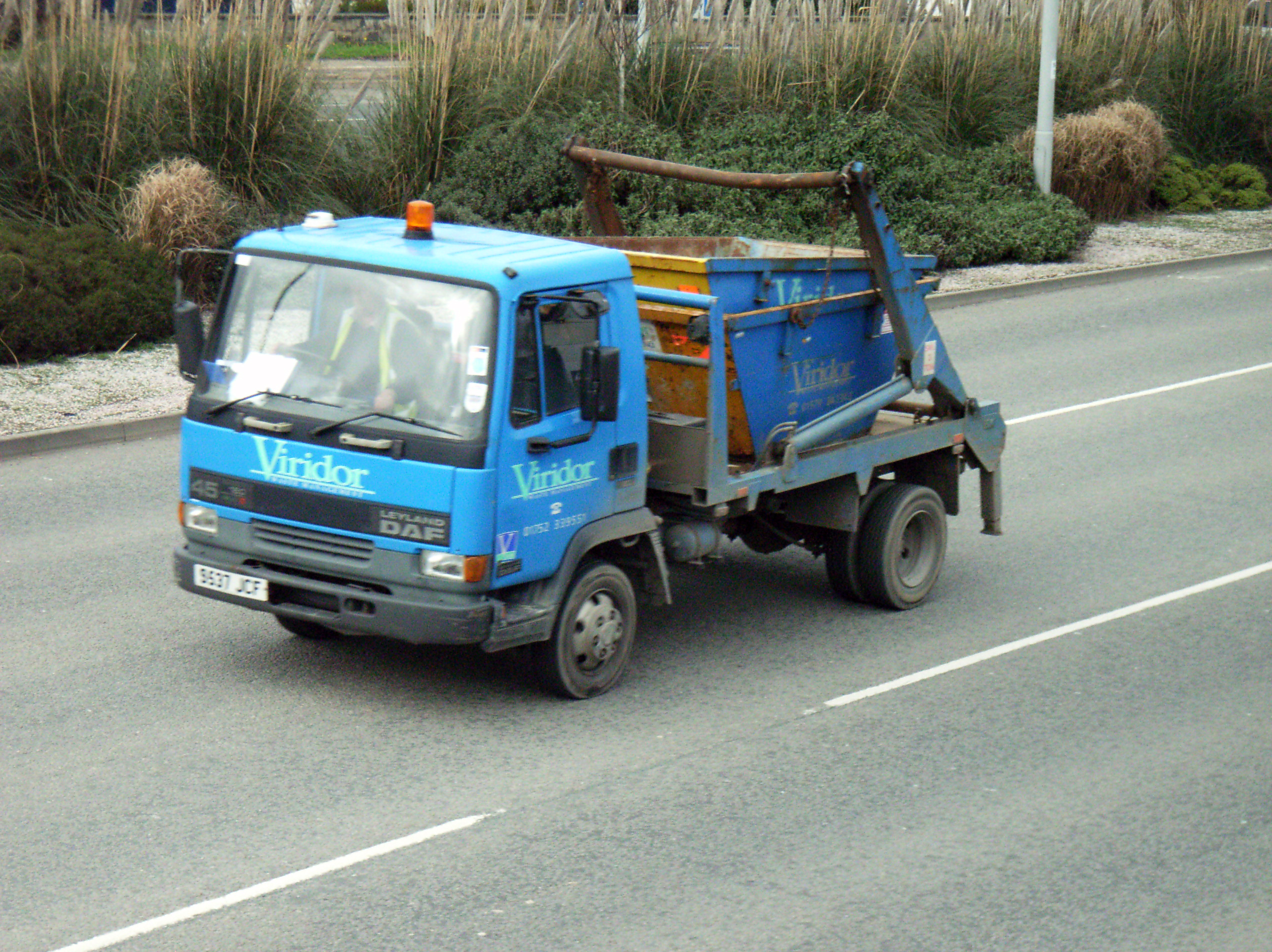 21 Feb 2007. Marsh Mills, Plymouth LEYLANDDAF FA 45.150 BOX VAN 0cc (31/12/1998) DIESEL